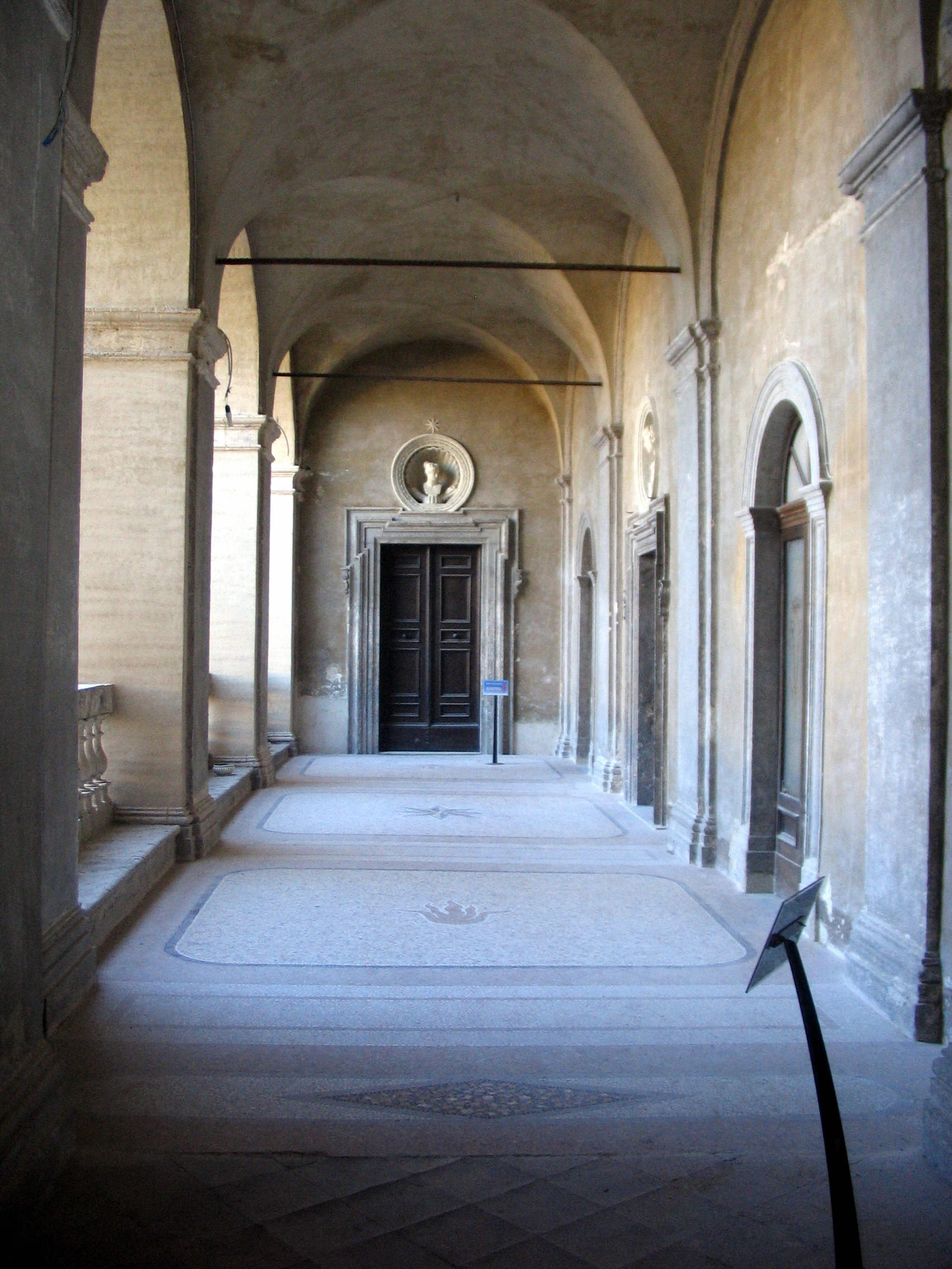 Vecchiarelli Palace - First floor - Rieti, Lazio, Italia